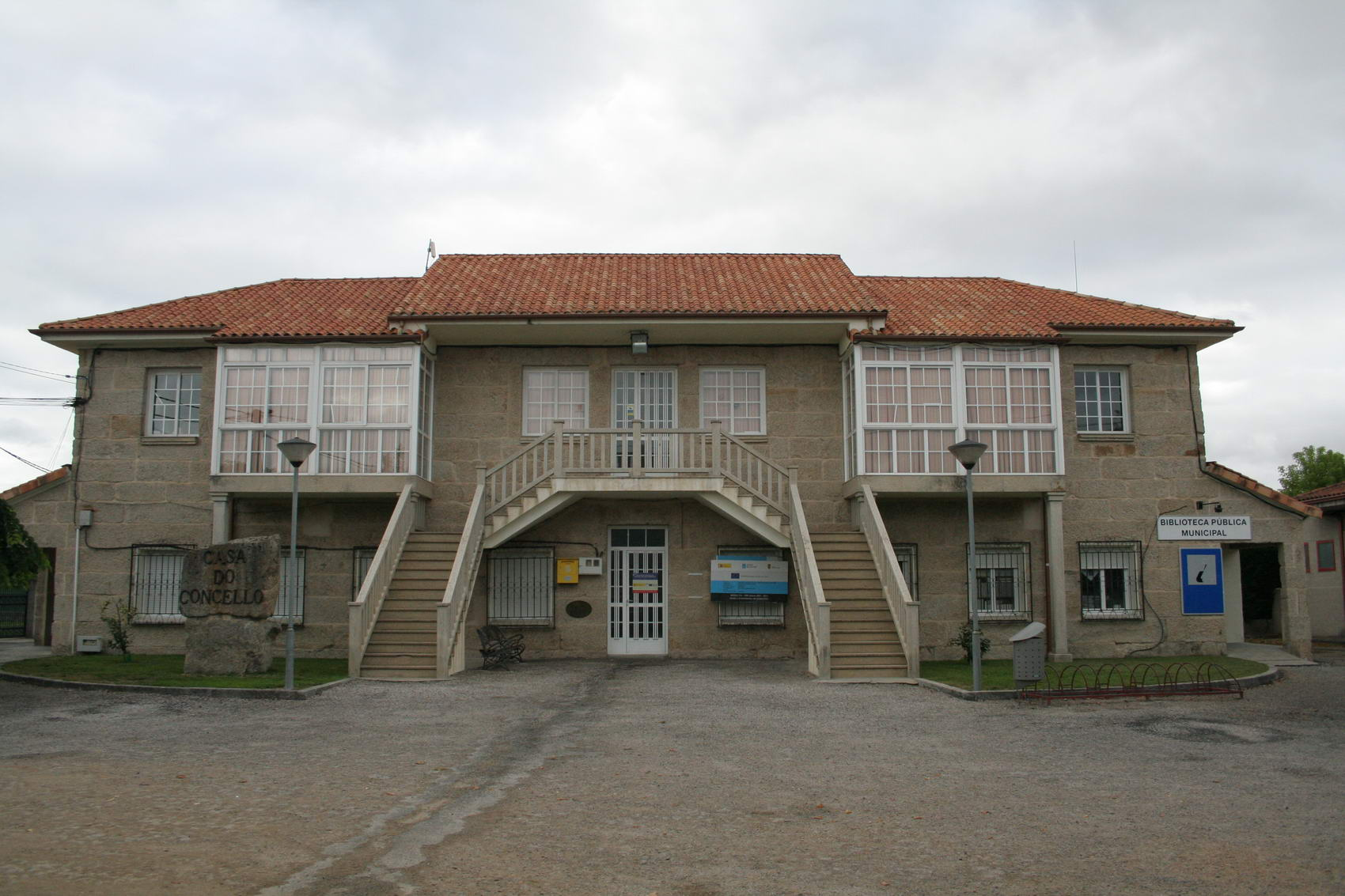 Town Hall and Municipal Library in Rairiz de Veiga (Spain)